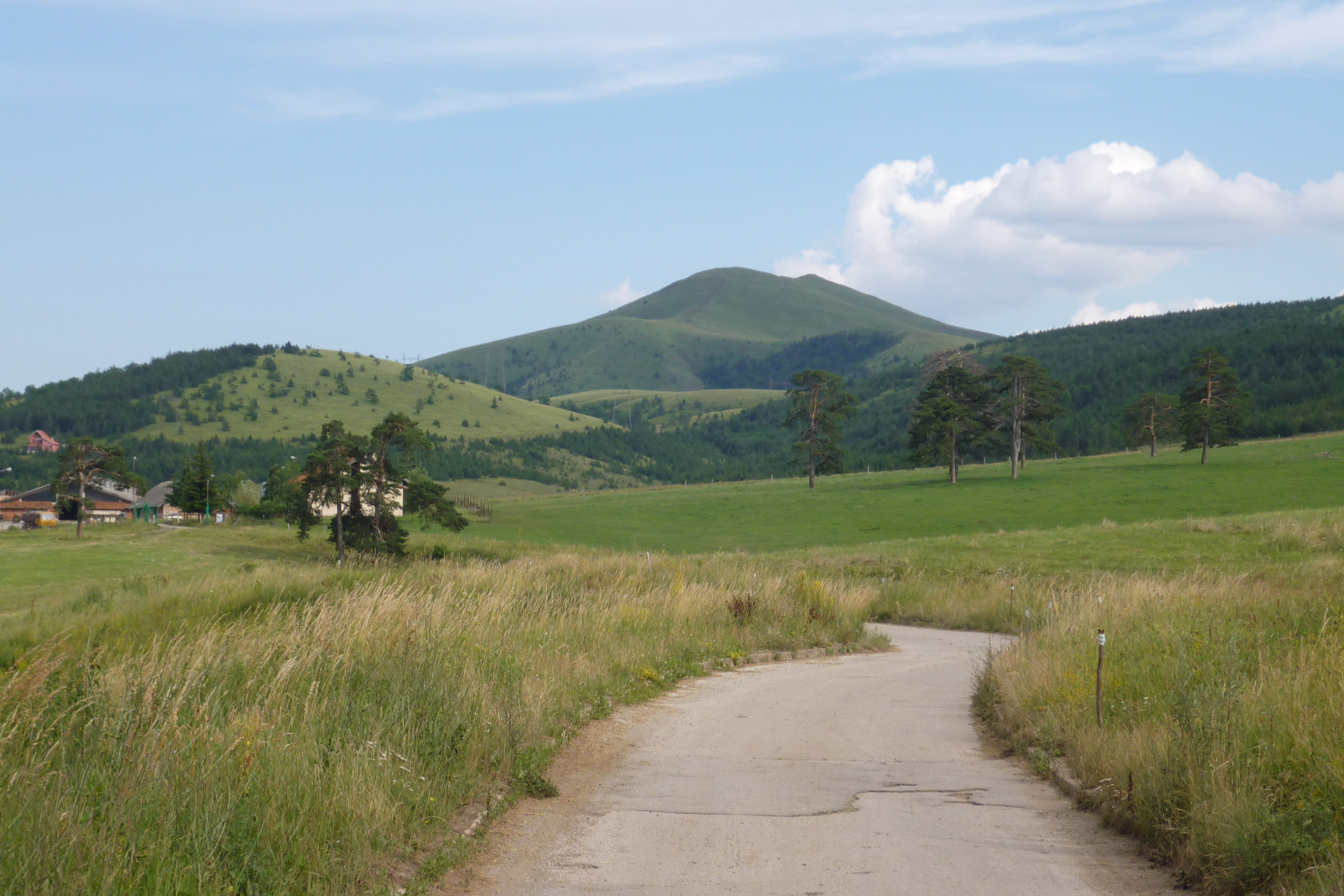 Cigota Mountain, the second highest mountain on Zlatibor